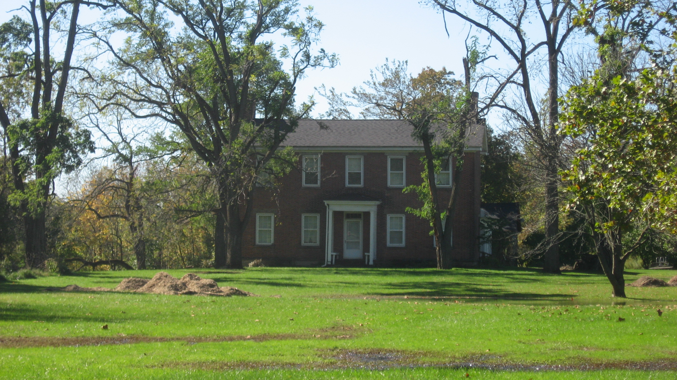 Front of the Jabez and Robbins Burrell House, located on East River Road in Sheffield, Ohio, United States, within a park known as the French Creek Reservation. Built in 1828, it is listed on the National Register of Historic Places.